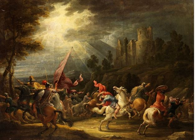 The enlightenment of St. Paul. Oil on canvas laid on canvas. 56 x 77 cm. (22 x 30.3 in.)